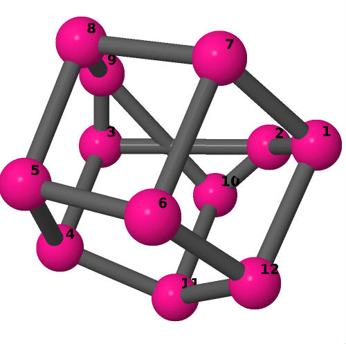 One of 85 simple cubic graphs with 12 vertices